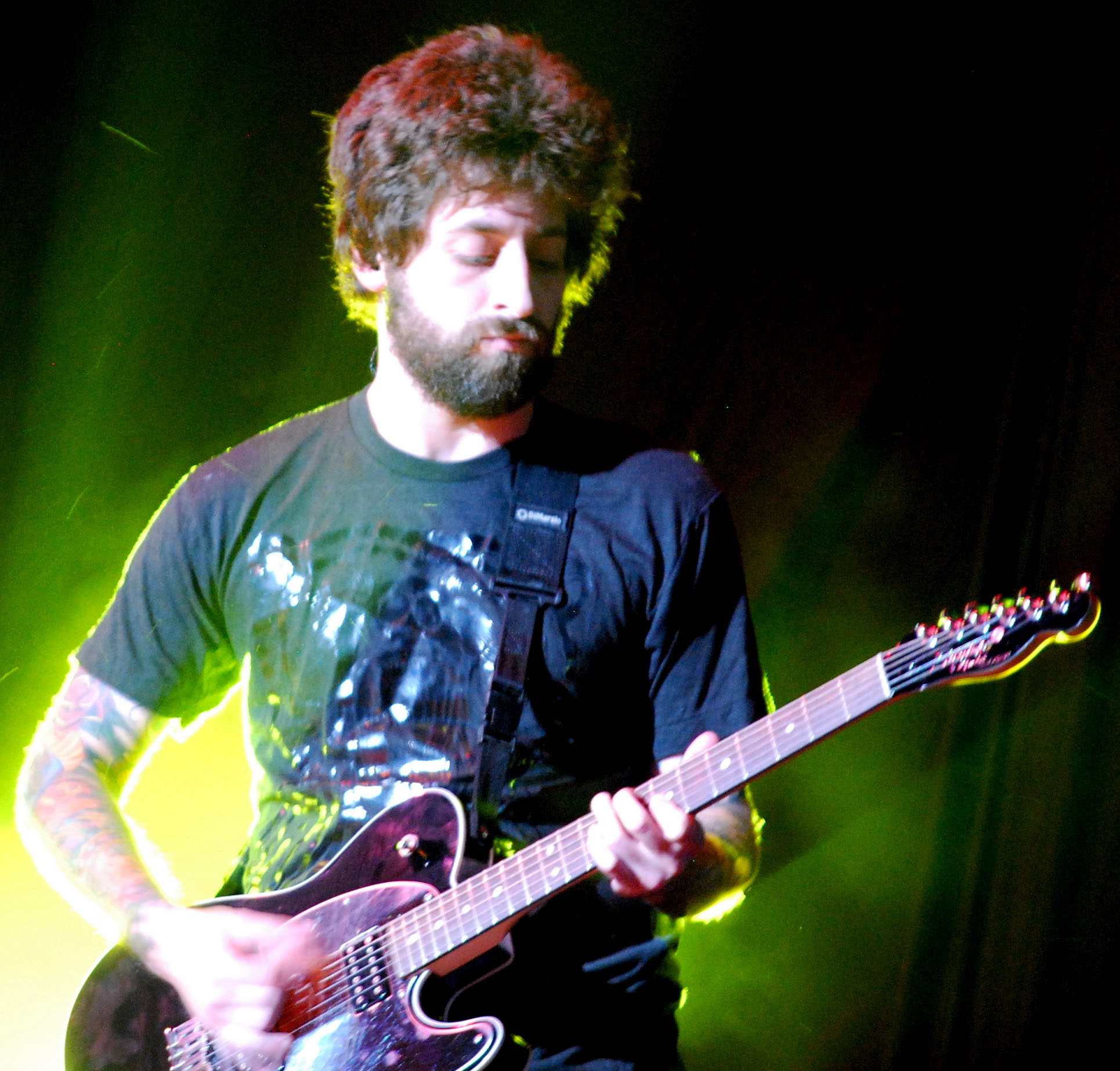 Joe Trohman of Fall Out Boy performing on August 15, 2009.